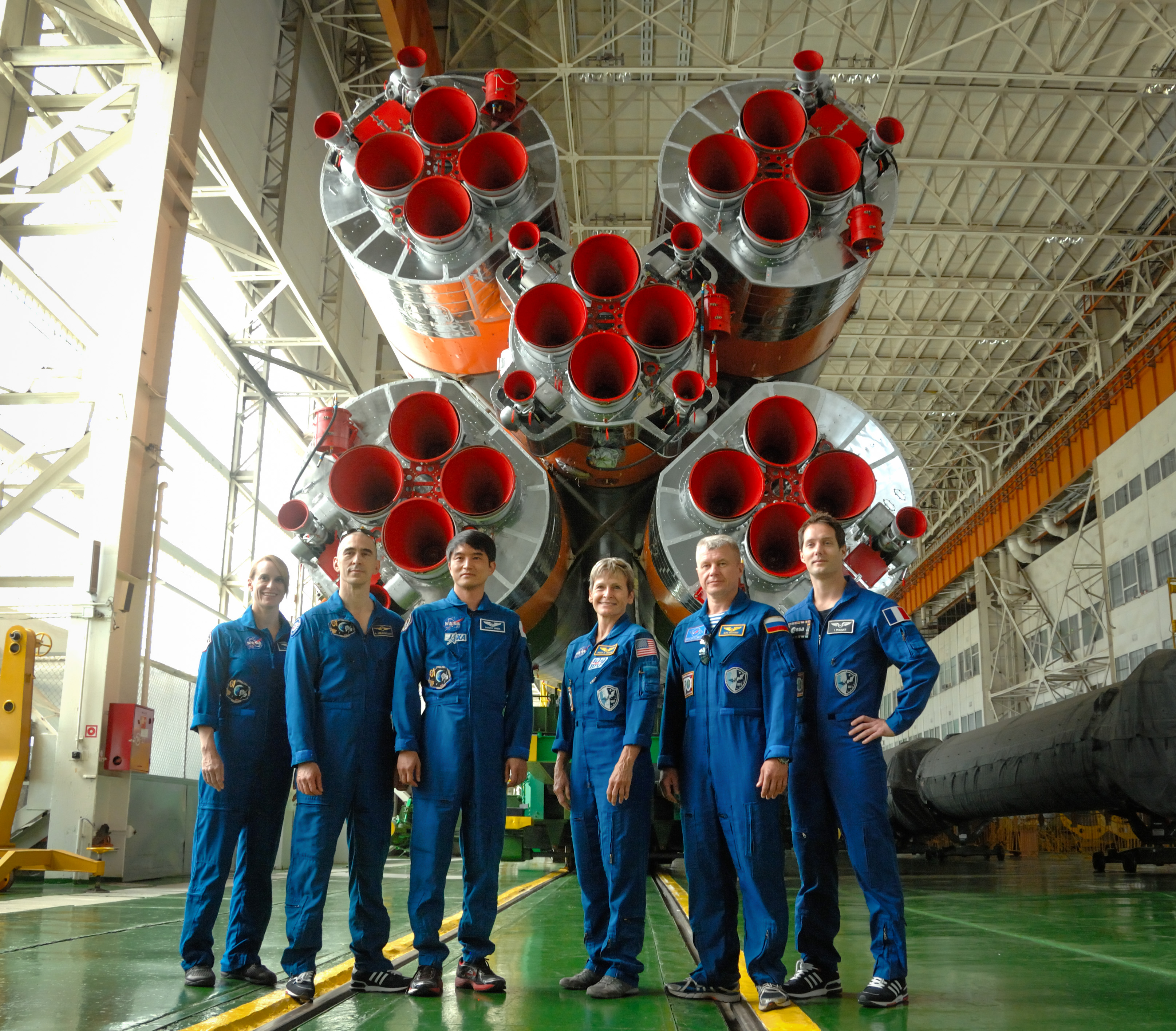 Expedition 48-49 crewmembers Kate Rubins of NASA (left), Anatoly Ivanishin of Roscosmos and Takuya Onishi of the Japan Aerospace Exploration Agency (JAXA) and backup crew members Peggy Whitson of NASA, Oleg Novitskiy of Roscosmos and Thomas Pesquet of the European Space Agency pose for a group photograph at the base of a soyuz rocket Saturday, July 2, 2016 at the Baikonur Cosmodrome in Kazakhstan. Rubins, Ivanishin, and Onishi will launch from the Baikonur Cosmodrome in Kazakhstan the morning of July 7, Kazakh time (July 6 Eastern time.) All three will spend approximately four months on the orbital complex, returning to Earth in October.